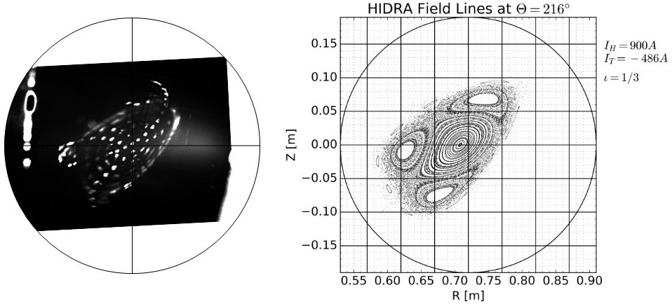 iota = 1/3 comparison of the Magnetic flux surfaces in HIDRA. Left id the experiment and right is calculated.